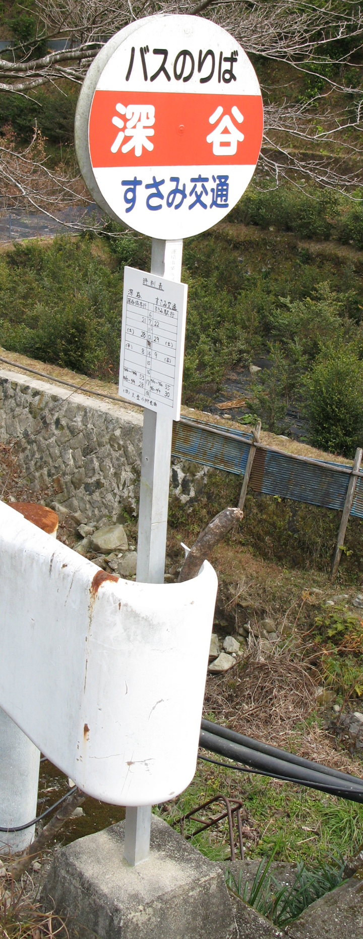 Susami Kotsu Fukatani Bus Stop in Susami Town, Wakayama Prefecture, Japan